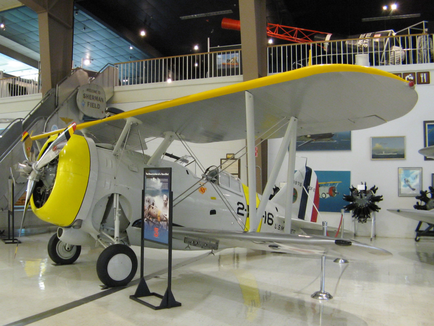 Grumman F3F-2 Flying Barrel, Naval Aviation Museum, Pensacola, Florida